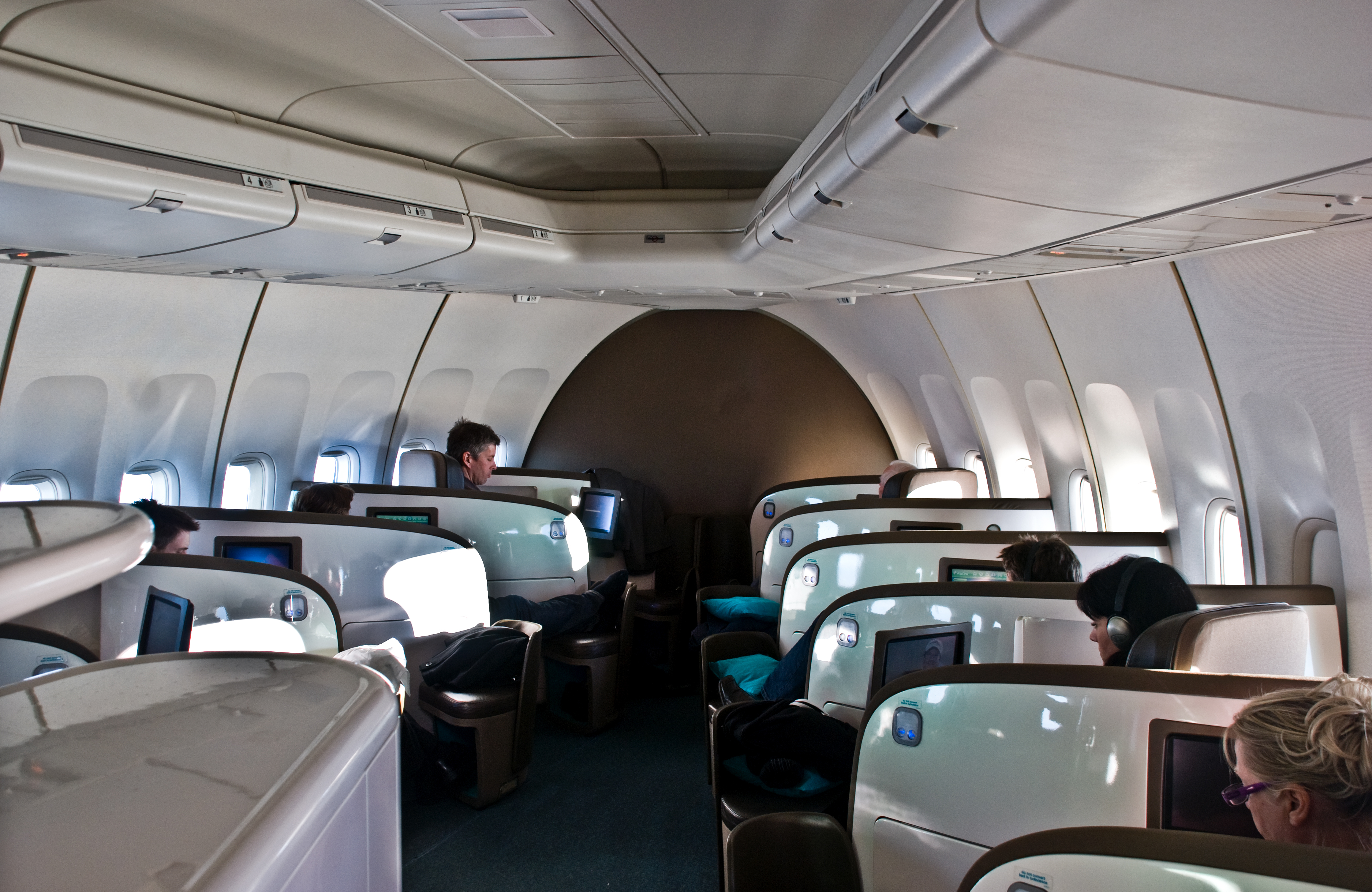 En route London to Hong Kong